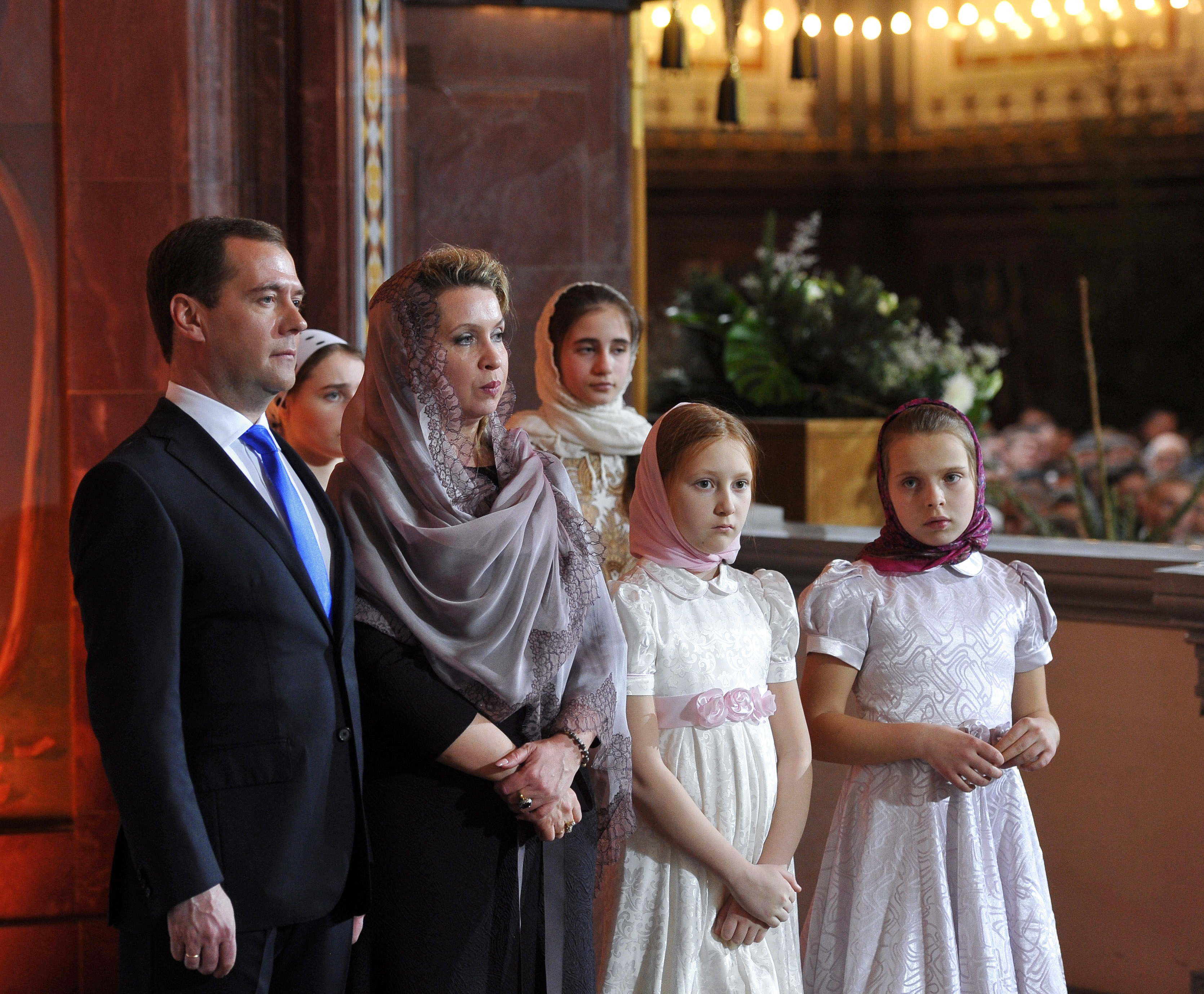 Dmitry Medvedev at Christmas service at Cathedral of Christ the Saviour in Moscow 2013-01-07